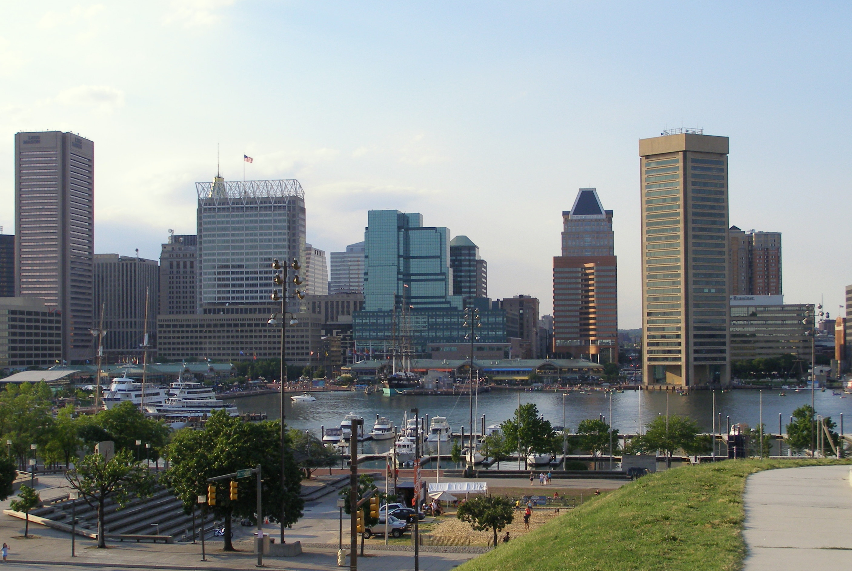 Baltimore skyline from Federal Hill Park